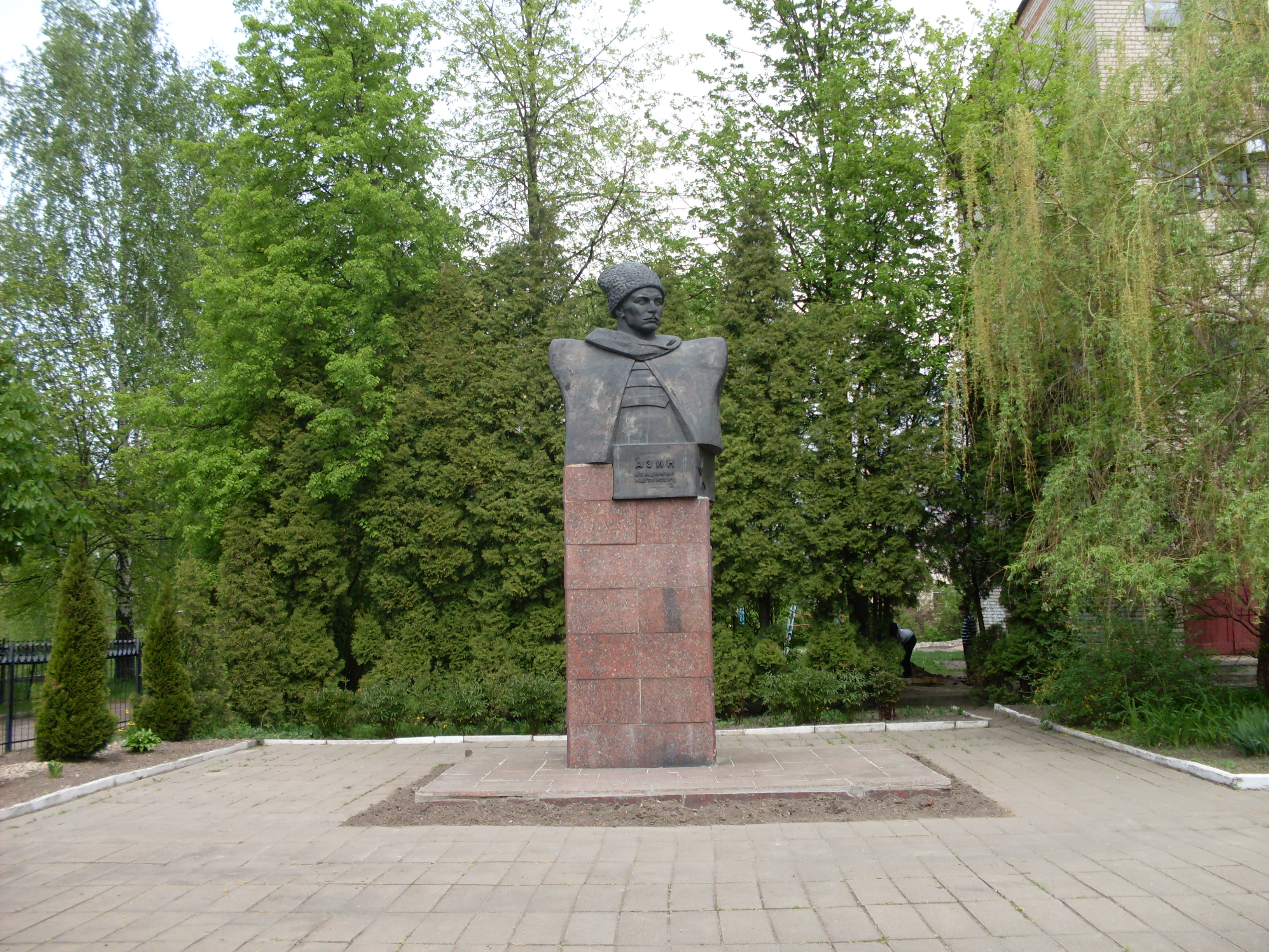 Bust to V. Azin (1979). Sculptor S. Vakar. Polotsk (Belarus)